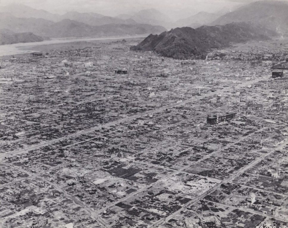 Damage to the Japanese city of Shizuoka caused by United Sates air raids during World War II